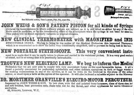 Advert for syringe by John Weiss & Son